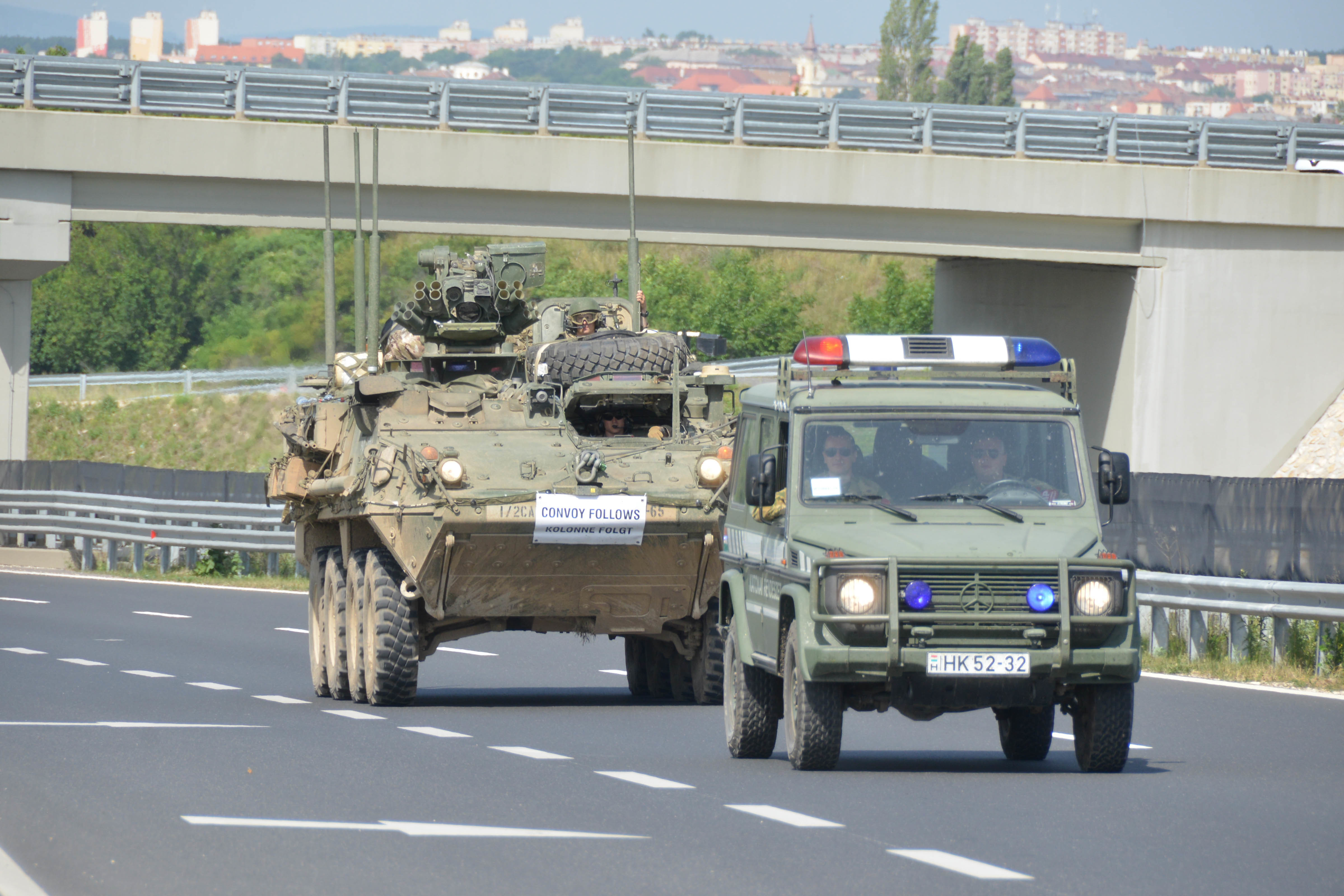 A U.S. Army 30mm Stryker Infantry Carrier Vehicle - Dragoon assigned to 1st Squadron, 2d Cavalry Regiment is escorted by Hungarian Military Police during a tactical road march en route to Cincu, Romania June 13, 2019. 1/2CR is currently supporting Saber Guardian 19, an exercise co-led by the Romanian Land Forces and U.S. Army Europe, taking place from June 3 - 24 at various locations in Bulgaria, Hungary and Romania. SG19 is designed to improve the integration of multinational combat forces. (U.S. Army photo by Pfc. Denice Lopez, Training Support Activity Europe)